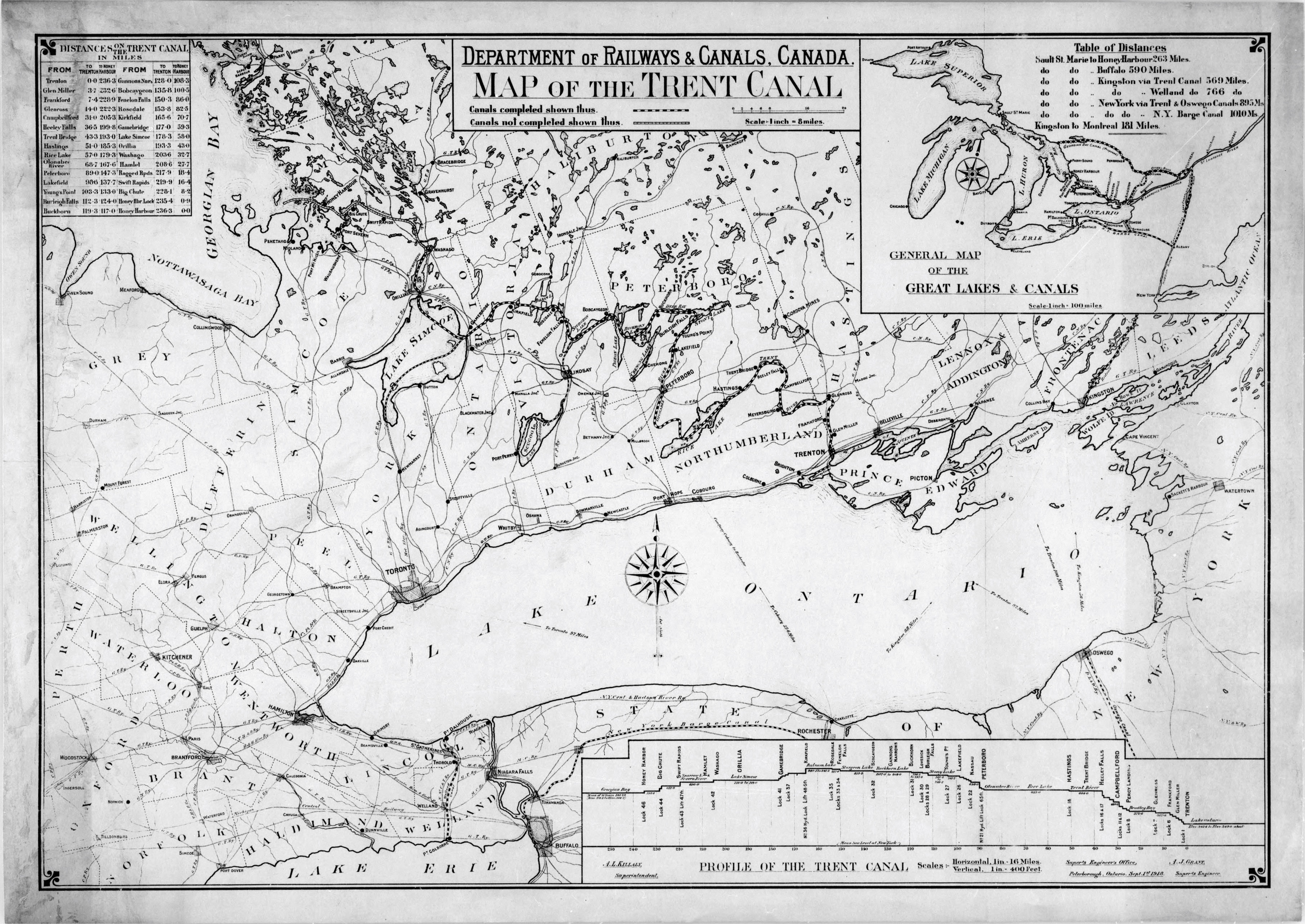 A map of the Trent-Severn Waterway as it appeared in 1918. The route as it existed at that time is complete to Trenton, and shown as a heavy dashed line. The yet-to-be-completed link to Georgian Bay, at this time still planned to run through Honey Harbour rather than the ultimate route through Port Severn, is shown as a dotted line. The Newmarket Canal is also shown, at the south end of Lake Simcoe, just prior to its cancellation. The map also shows the many railways in the area, notably the Port Perry and Port Whitby that connects to Lake Scugog (just northeast of Toronto), the closest approach the Waterway makes to Toronto. The Cobourg and Rice Lake railway has already been lifted by the time this map was produced. The inset map in the upper right shows the system in relation to other canals in the area. These include the Rideau Canal, the Welland Canal, the New York Barge Canal (which had replaced the Erie Canal by this point) and it's various connections, and, at the extreme north of the map, the Georgian Bay Canal which was never built.